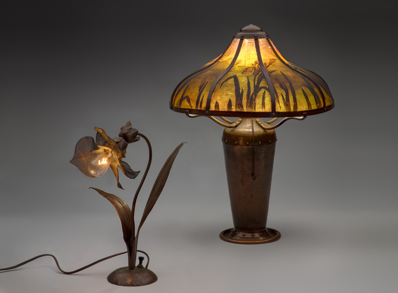 Flower lamp c. 1907 Lillian Palmer (1871–1961) San Jose copper, copper mesh Courtesy of Caro Macpherson L2017.0204.039 Lamp with painted shade 1910 Lillian Palmer (1871–1961) San Francisco hand-hammered copper, copper mesh shade Courtesy of Caro Macpherson L2017.0204.038